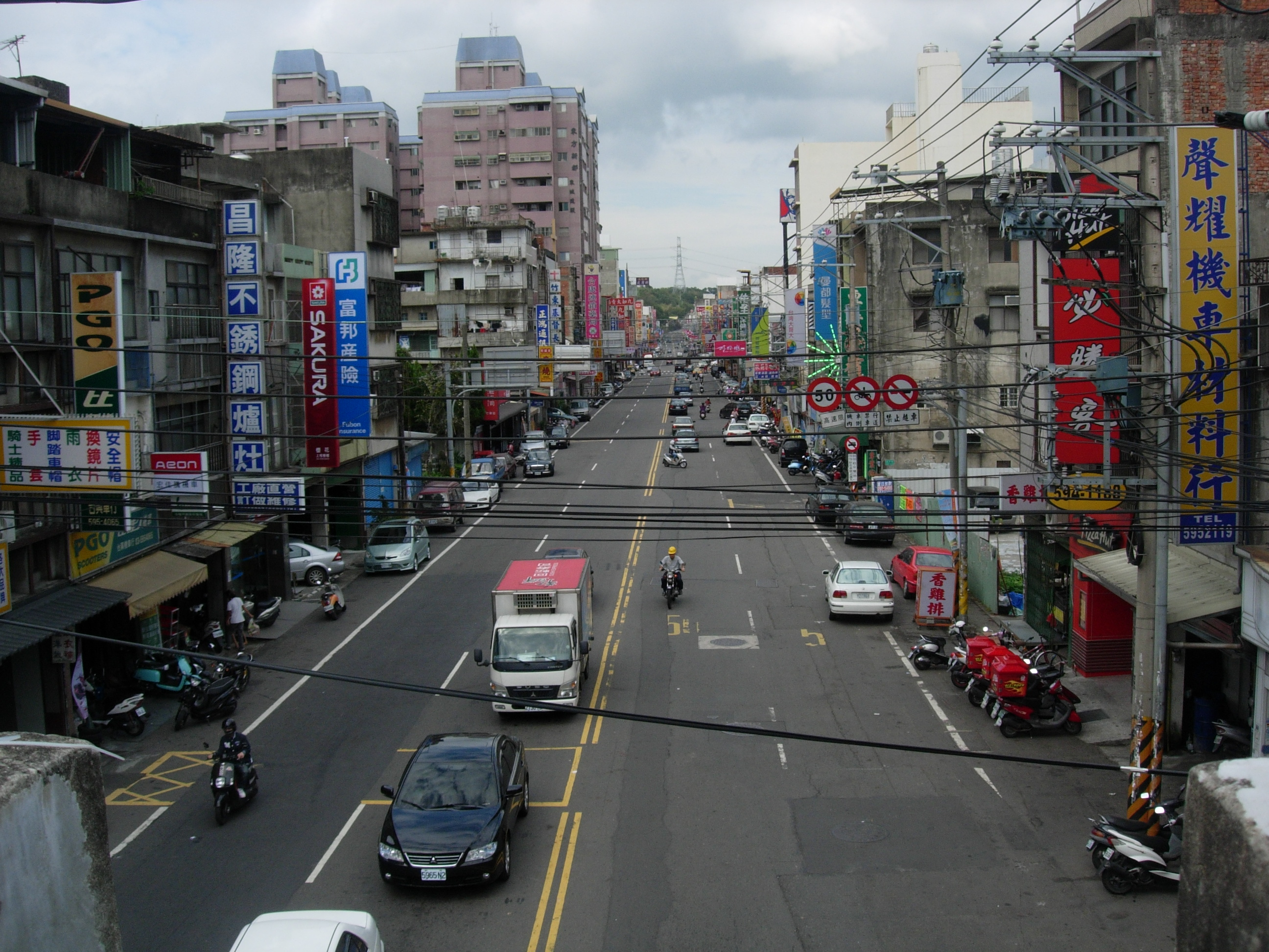 Chutung township Changchun Road中文（台灣）: 竹東長春路三段。